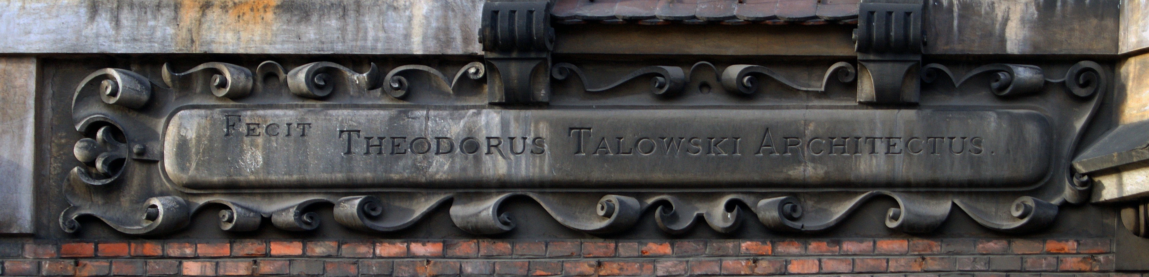 Created Teodor Talowski Architect, 1888, Pod Osłem house, 9 Retoryka street, Kraków, Poland